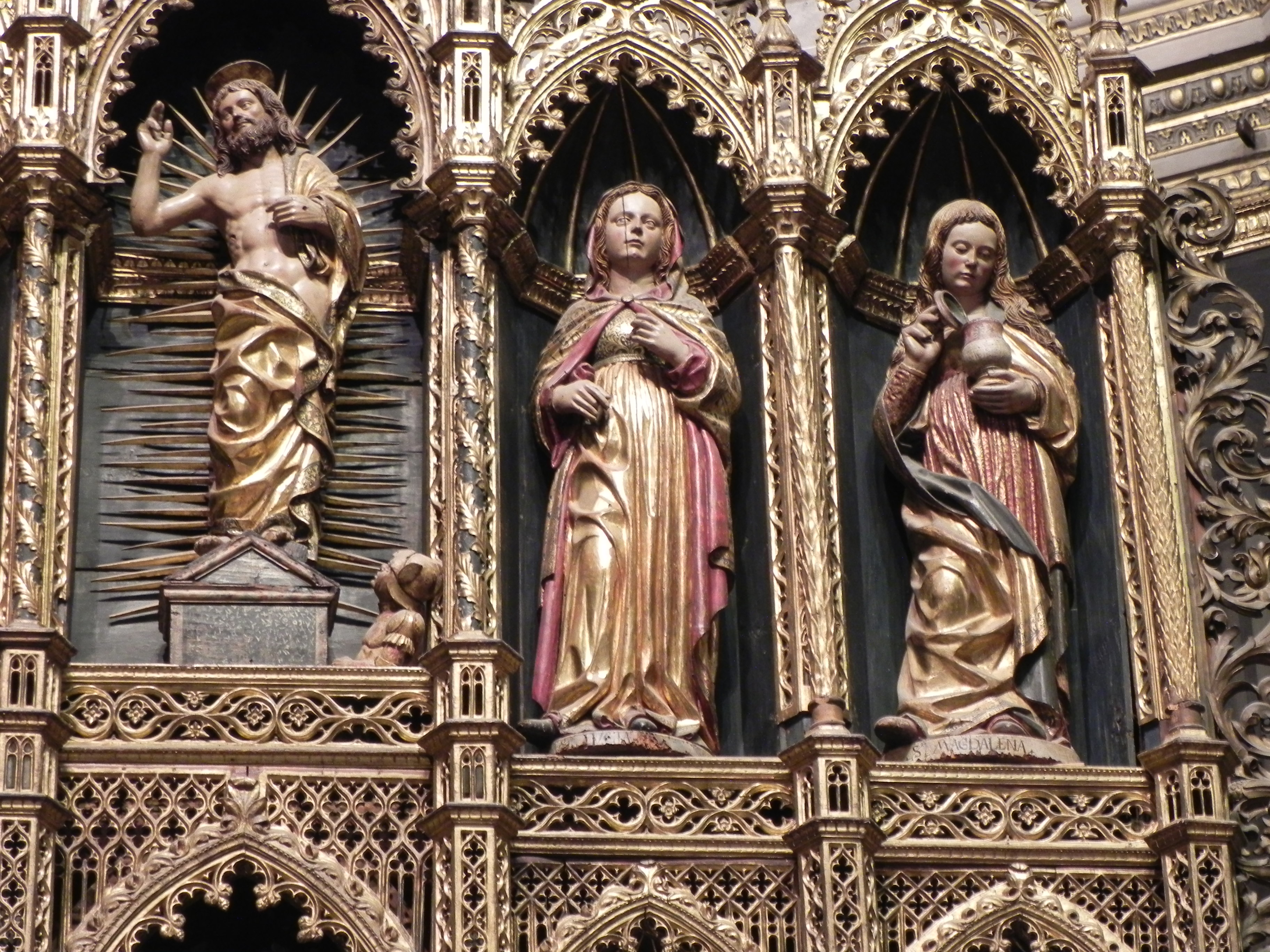 Salò (BS Italy) Cathedral Main Altar of the church (detail) Frame by Bartolomeo da Isola Dovarese Statues by Pietro Bussolo Polychrome and golded wood XVI century - 1470-1501